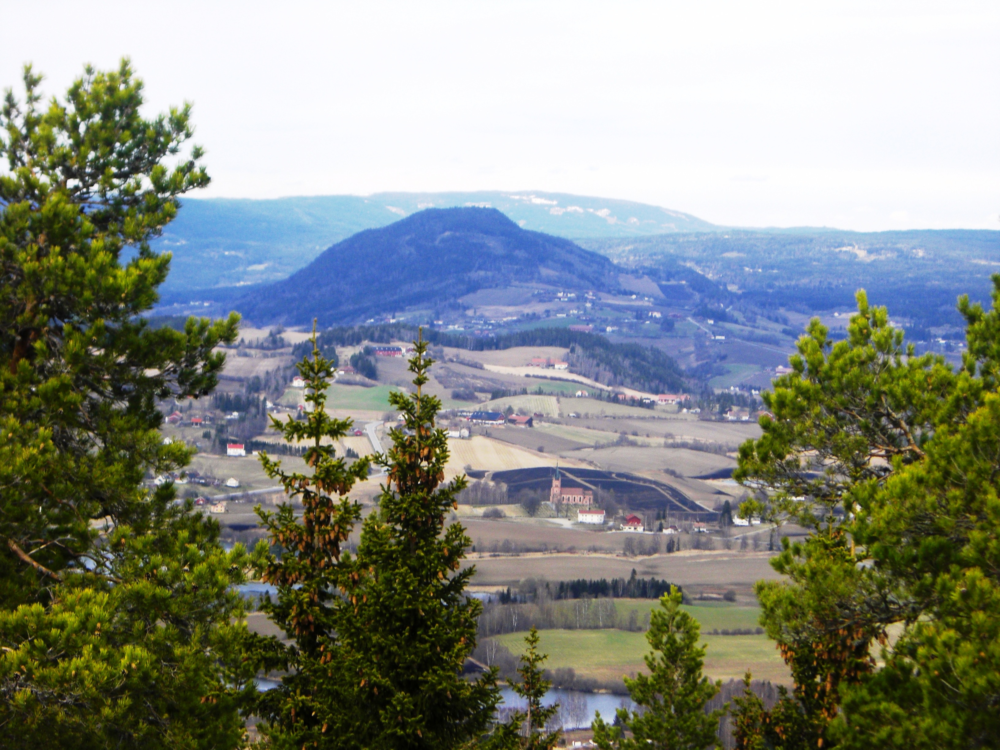 Brandbukampen